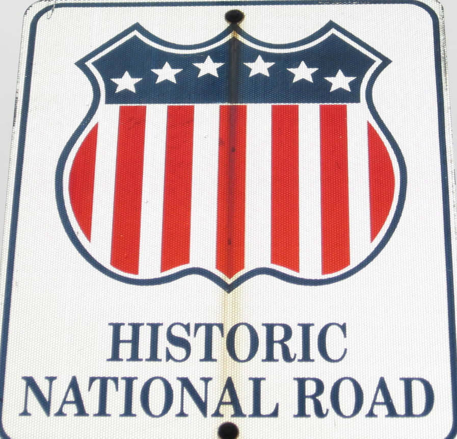 Sign for National Road in Richmond, IN